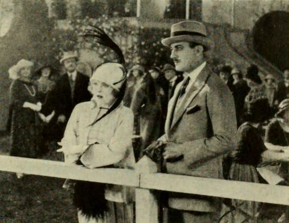 Still from the American film Broadway Rose (1922) with Mae Murray and Ward Crane, page 63 of the December 1922 Photoplay